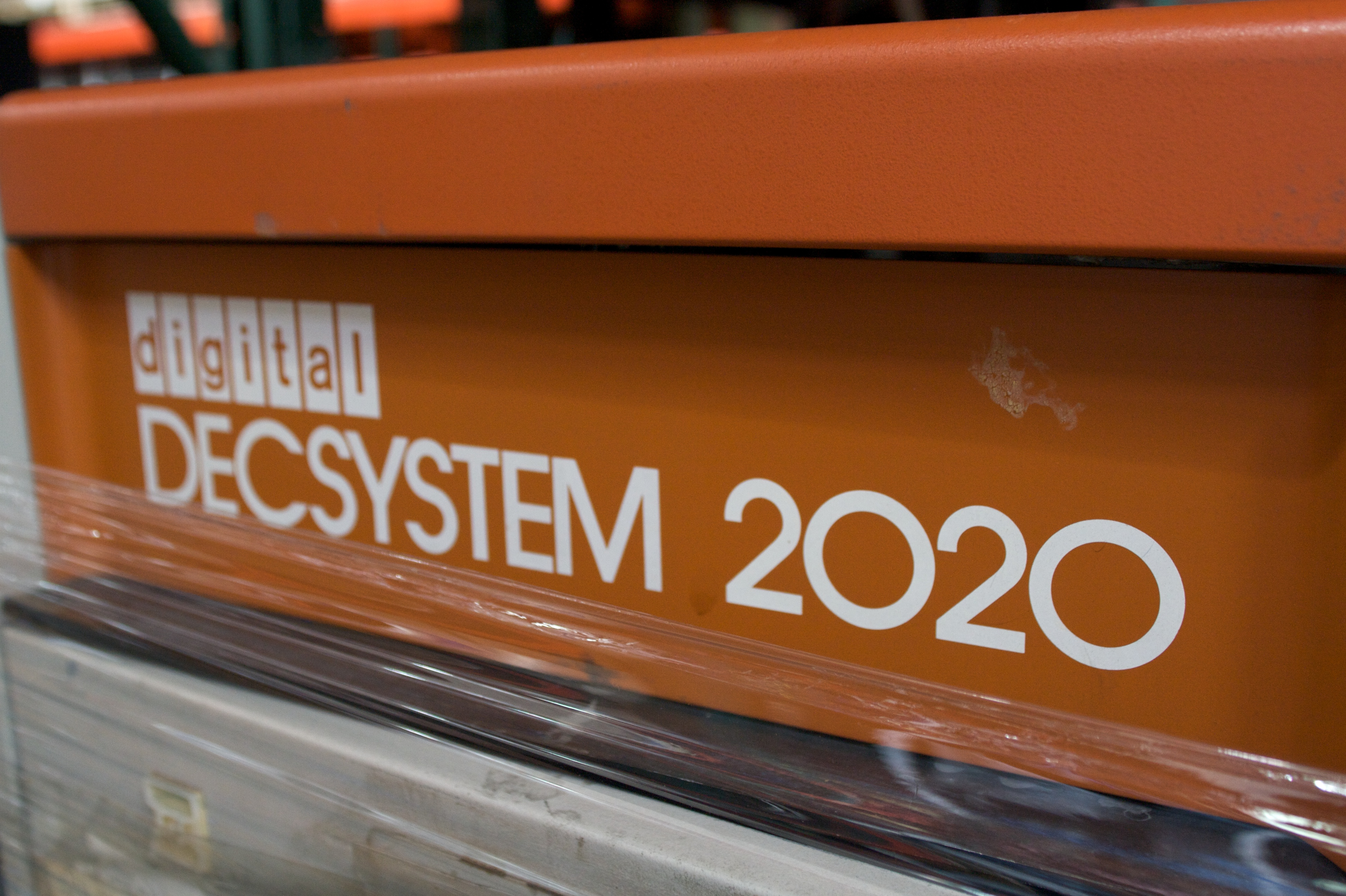 Logo from the front of a DECsystem 2020 minicomputer.